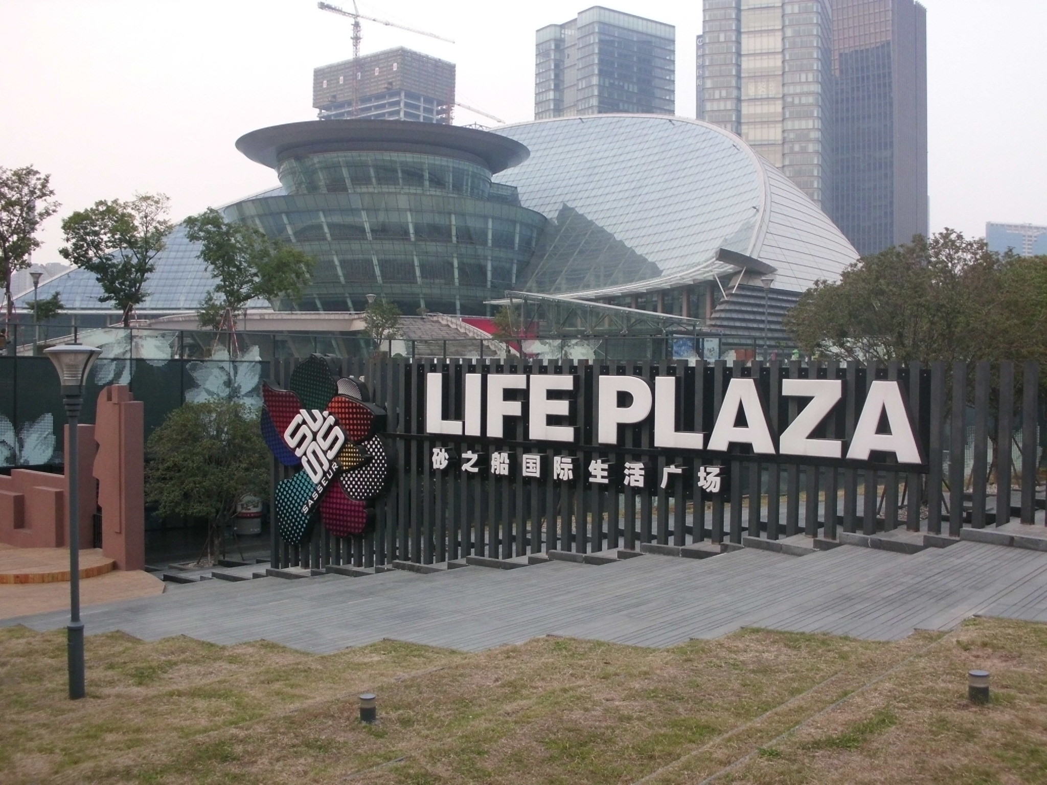 sasseur life plaza